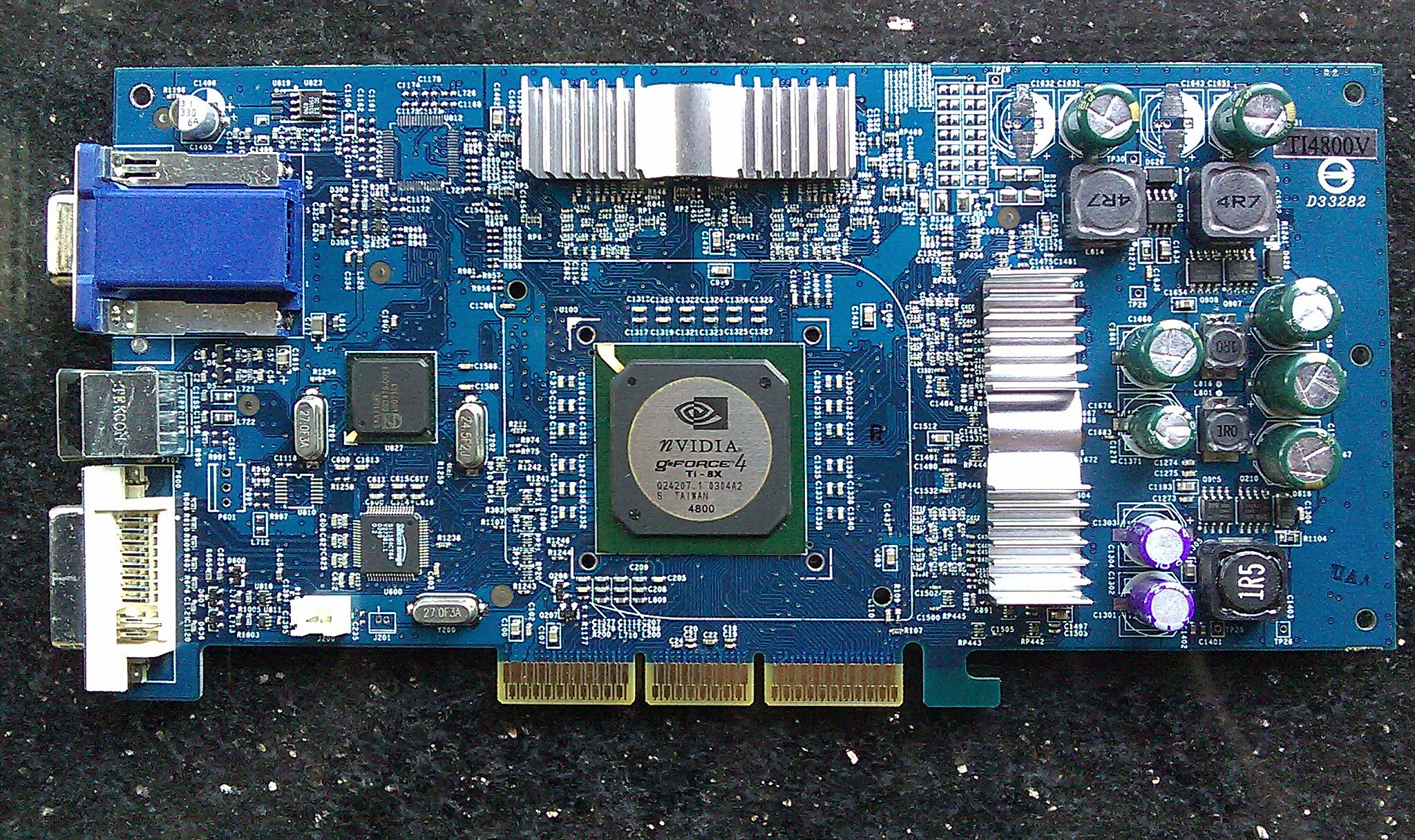 Albatron GeForce4 Ti 4800 Graphic card